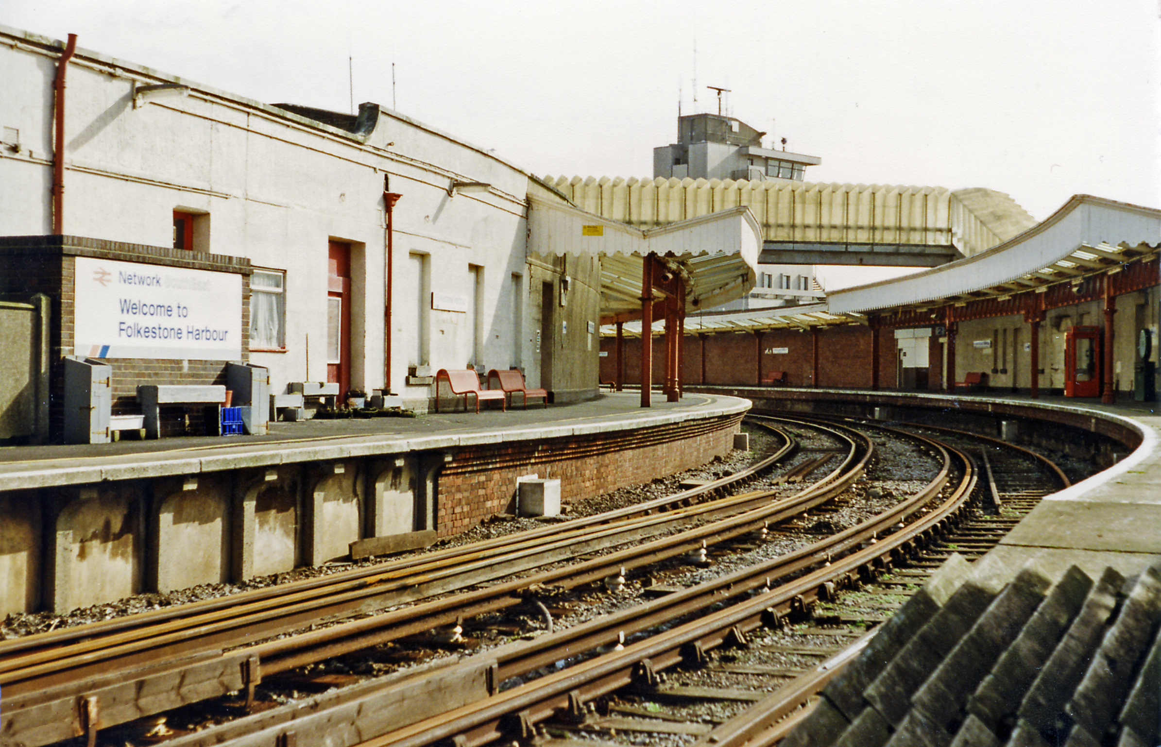 Folkestone Harbour station, 1997. View towards buffer-stops: ex-SE&CR terminus of the steeply-graded branch from Folkestone Junction, electrified 1961. As evidenced by the rusty rails, it received very few trains after the Channel Tunnel opened in 1994 and in 2001 it was closed to ordinary traffic.